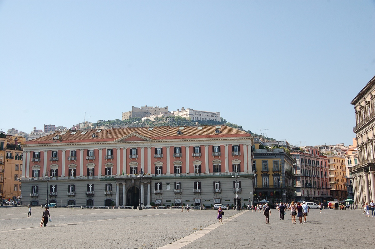 Naples 2010